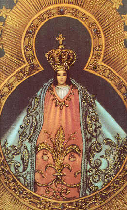 Artistic representation of the Virgin of Suyapa, Patron of Honduras and central America.